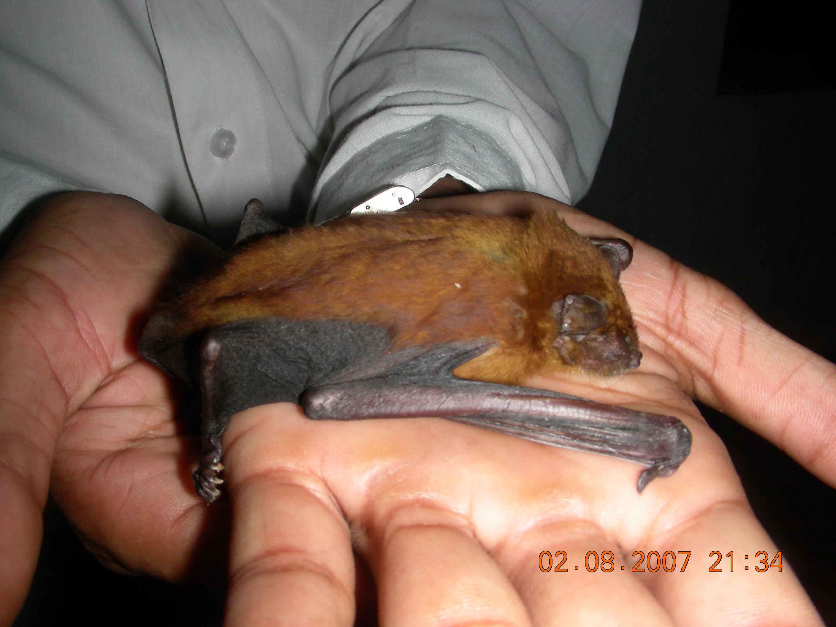 Lesser Asiatic yellow bat (Scotophilus kuhlii). Recorded in Binnaguri, West Bengal, India on 2 August 2007.